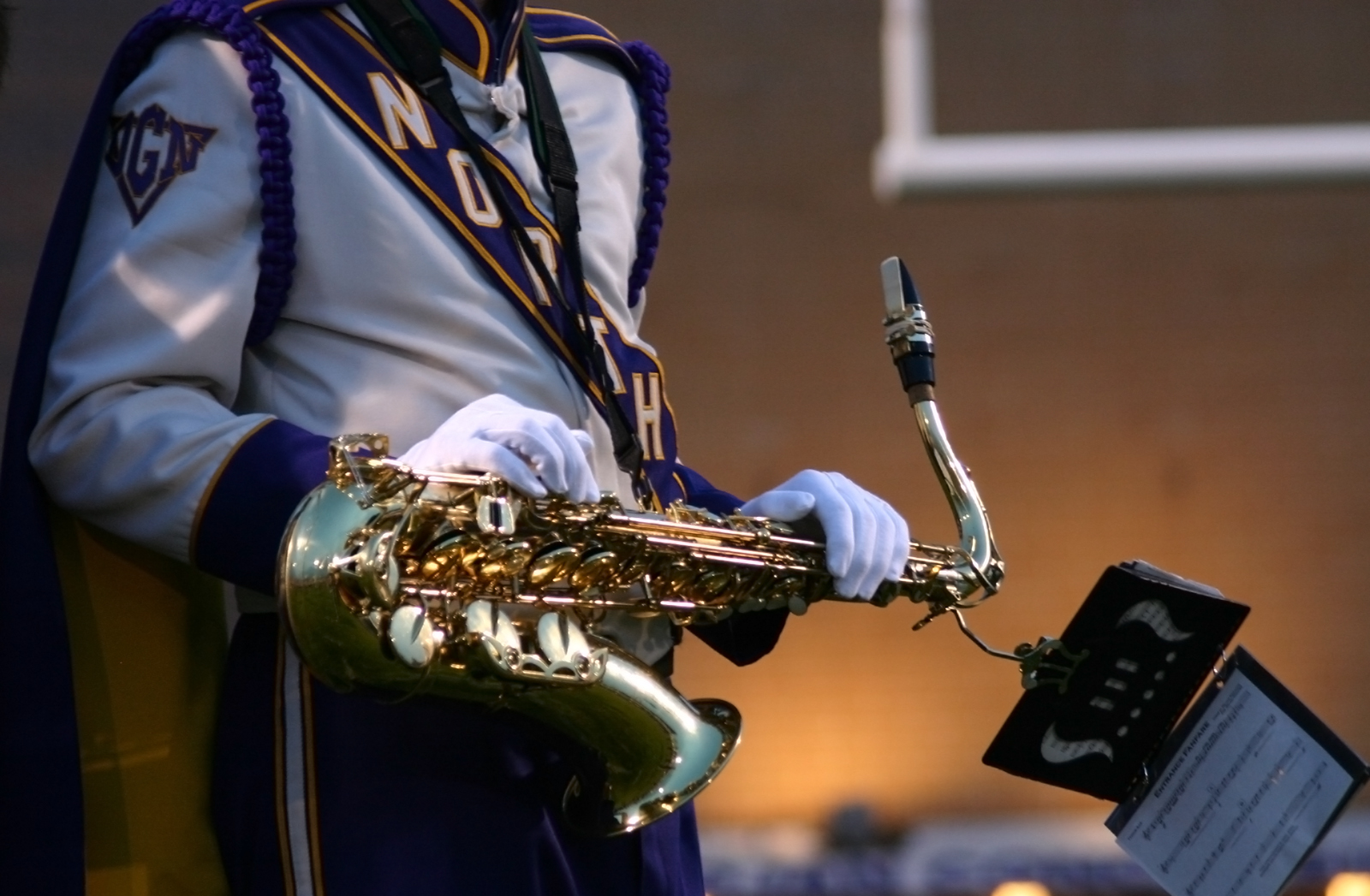 Some marching bands have their members hold music on lyres attached to the instrument.